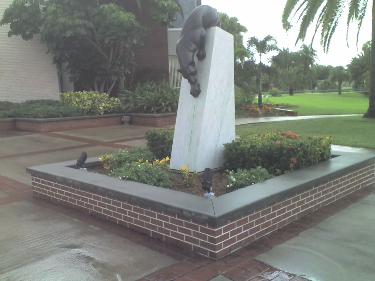 The Florida Tech Panther, located in the Panther Plaza, which is surrounded by the Pantherium, Keuper Building, and the Homer Denius Student Union Building. The Panther Plaza provides the walkway adjacent to the wood bridge (renovated in summer of 2006) that connects on-campus students from Roberts Hall, Columbia Village, and the North Campus Residence Quad to the rest of the university. Picture taken on 21 October 2007 by User:Jamesontai on a 1.23MP Motorola V3i Camera (phone).